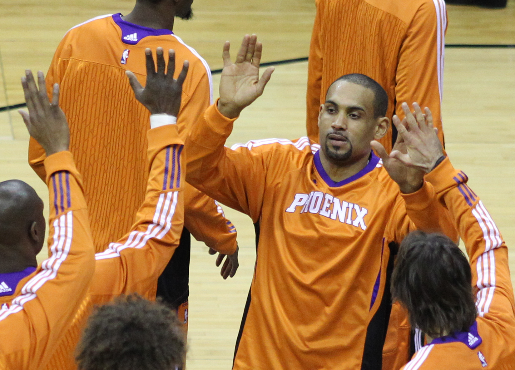 Washington Wizards v/s Phoenix Suns January 21, 2011